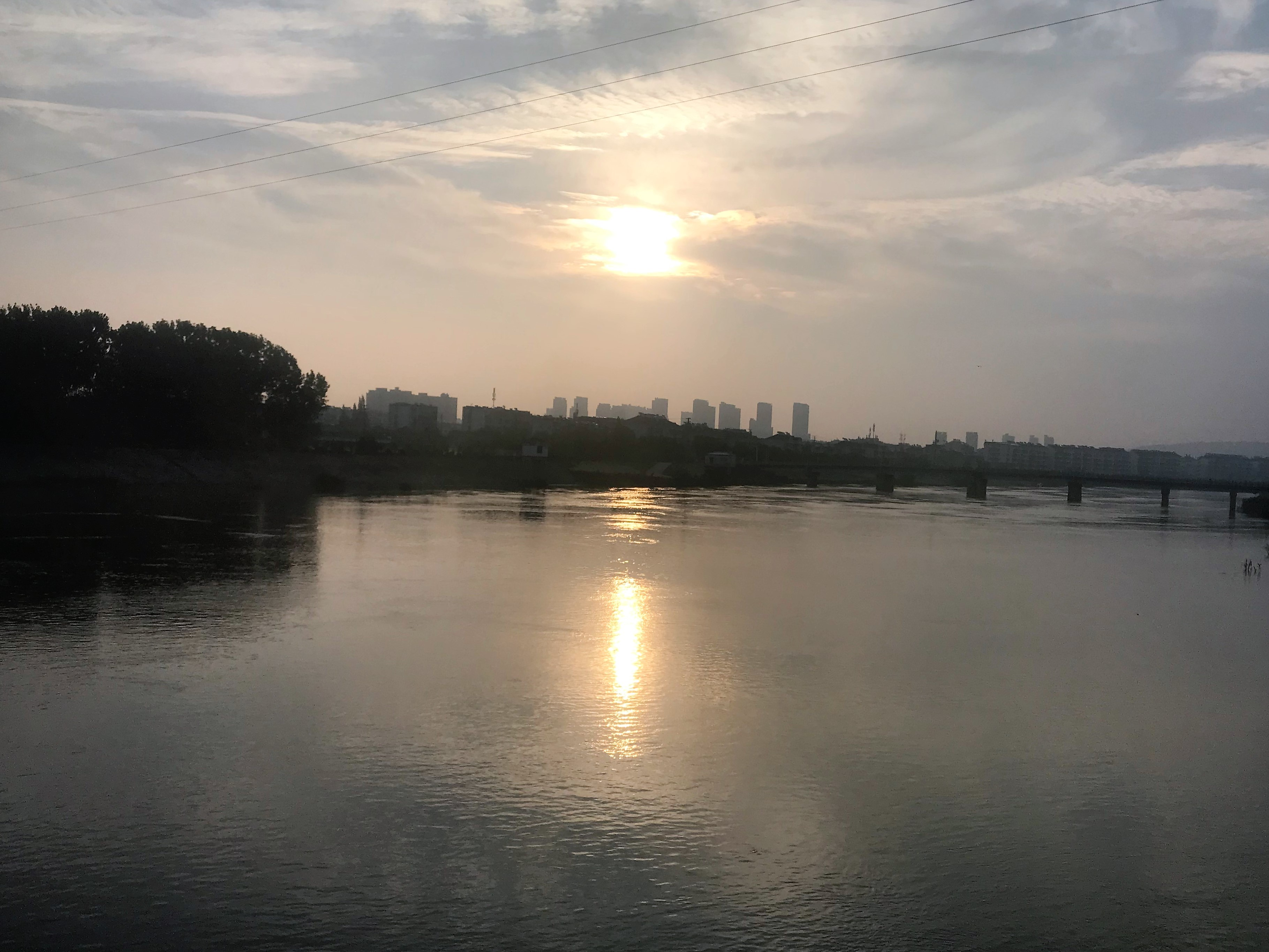 The distance between stations is much shorter than over single-track railways